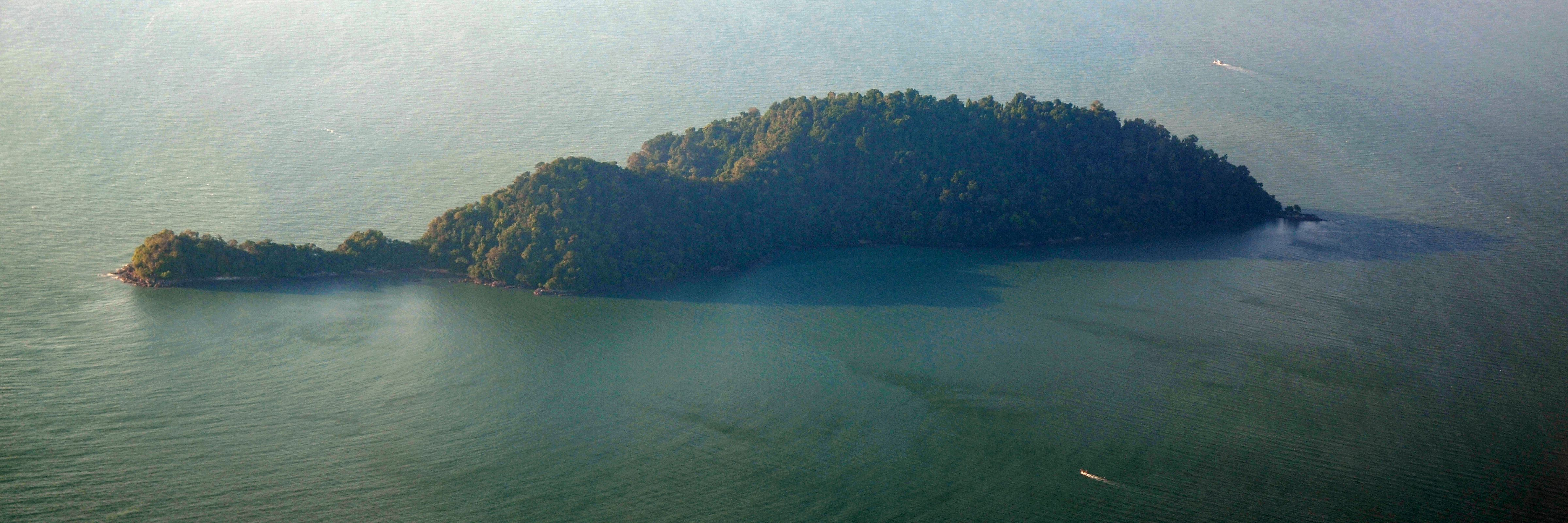 Aerial view of Pulau Kendi from the east.